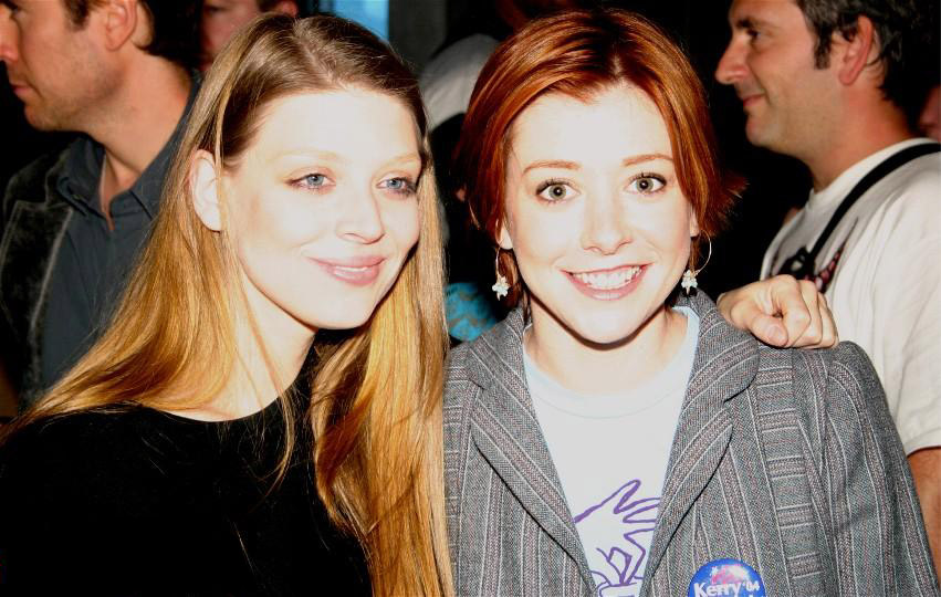 Amber Benson (left) and Alyson Hannigan at the Kerry/Edwards Fundraiser Oct 24,2004